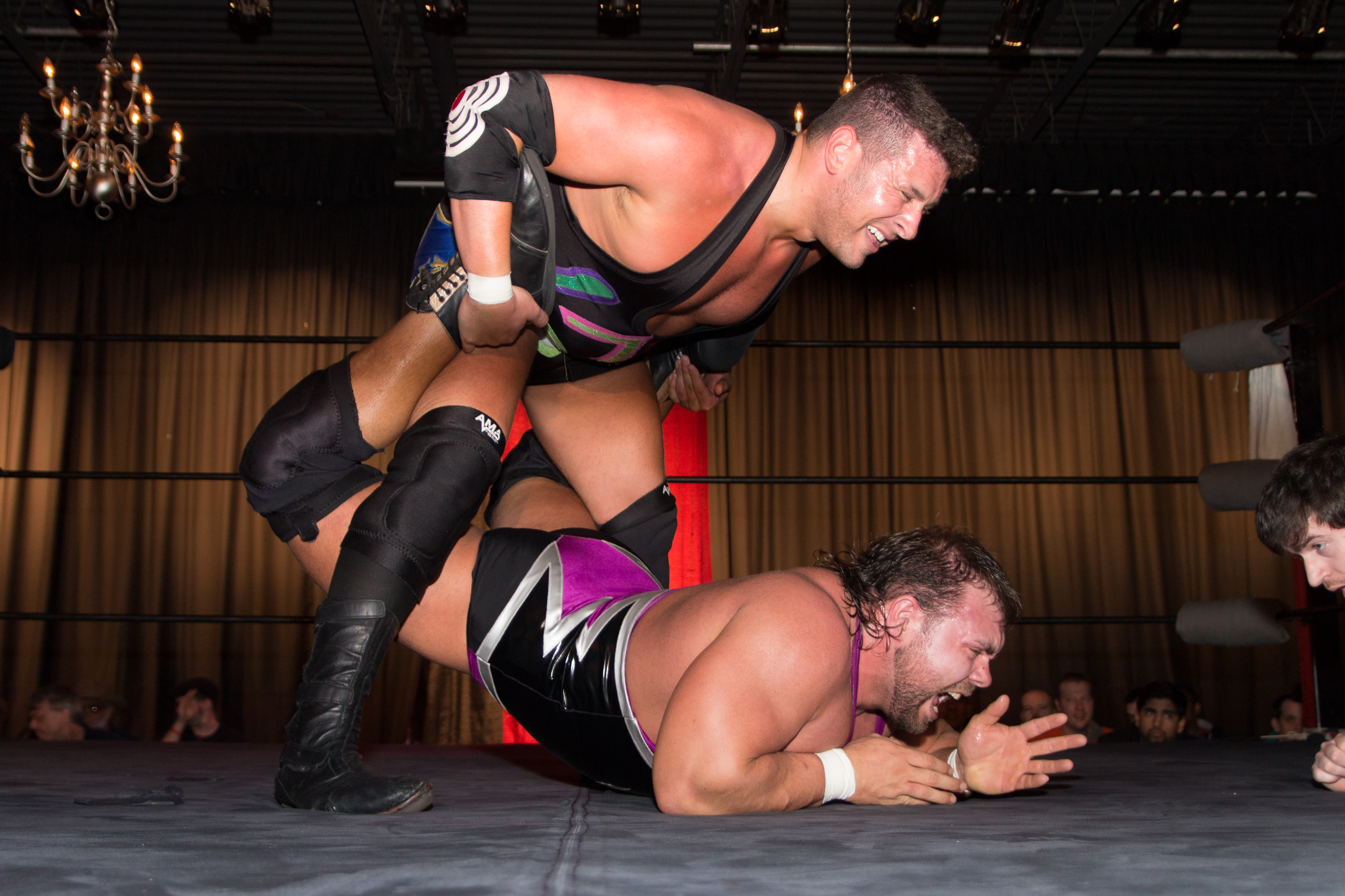 Colt Cabana applying the "Billy Goat's Curse" (a.k.a. a reverse boston crab) to Michael Elgin